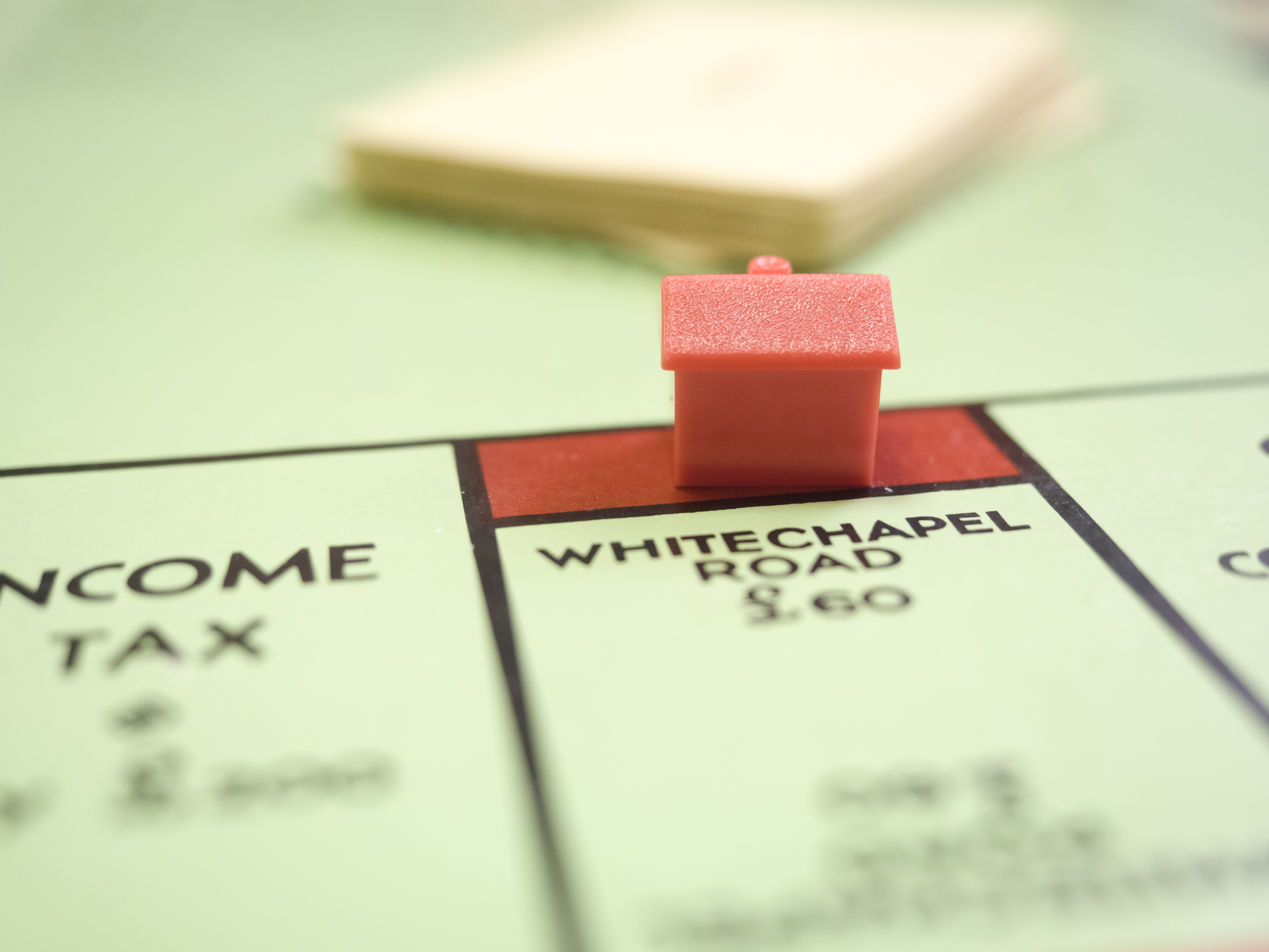 Board game